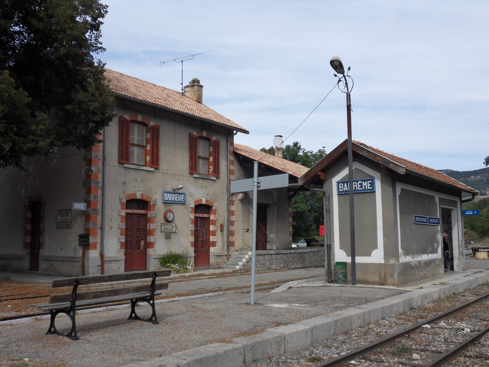 The train station of Gare de Barrême, France.